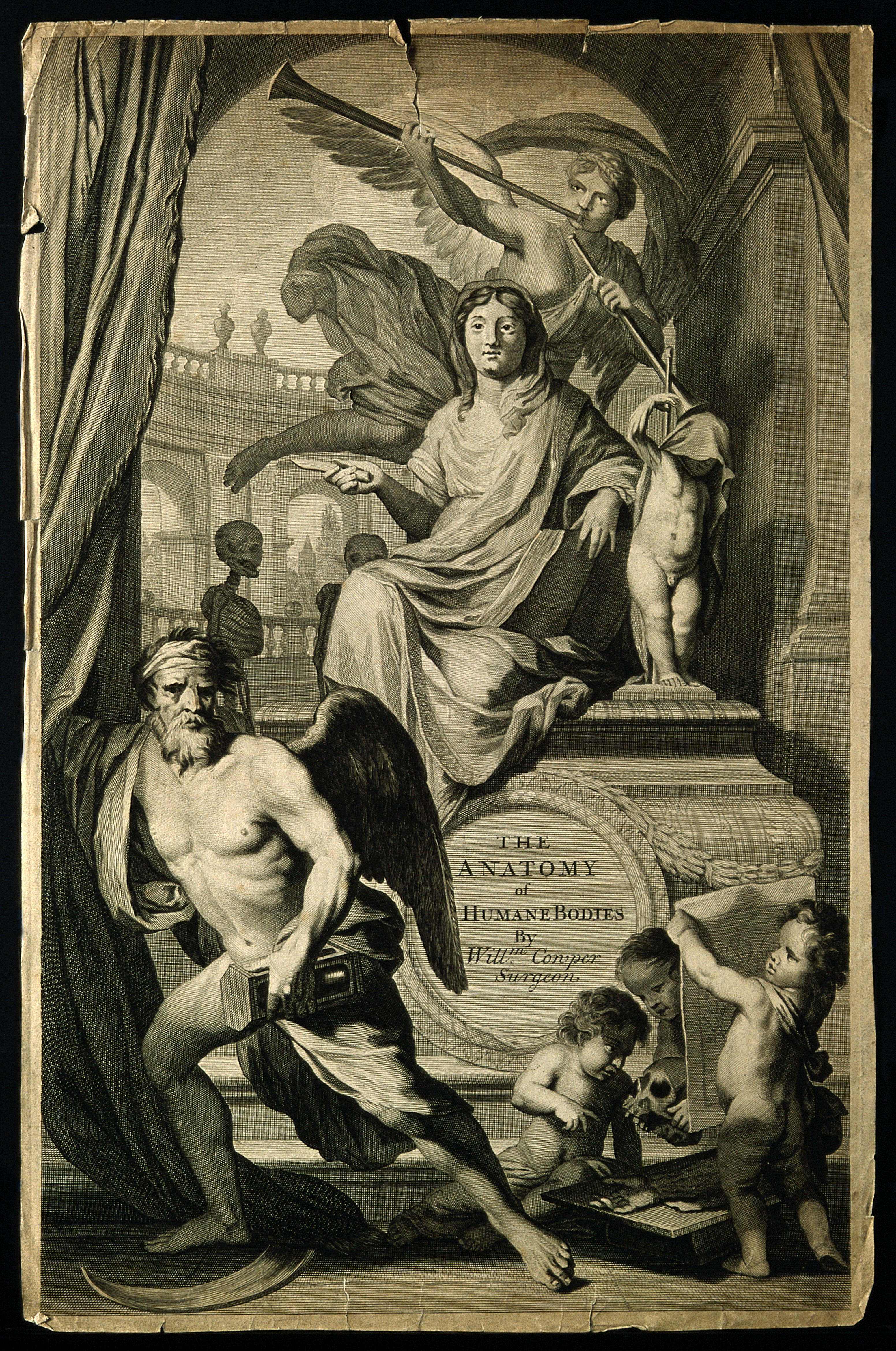 Titlepage to William Cowper, Anatomie of humane bodies. Line engraving, 1698. Iconographic Collections Keywords: portrait prints; cowper, william, 1666-1709; engravings; William Cowper